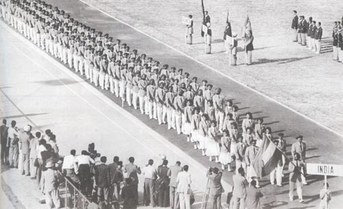 Indian athletes marching through the National Stadium during the opening ceremony of the First Asian Games, held in Delhi, India.